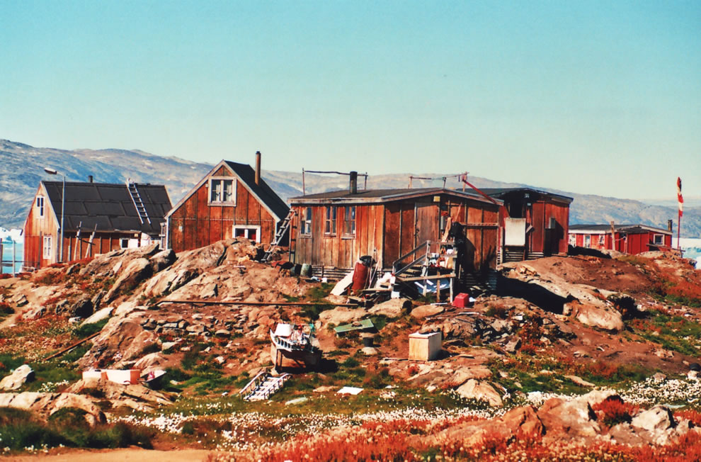 Houses at the Village Tiniteqilaq, East Greenland